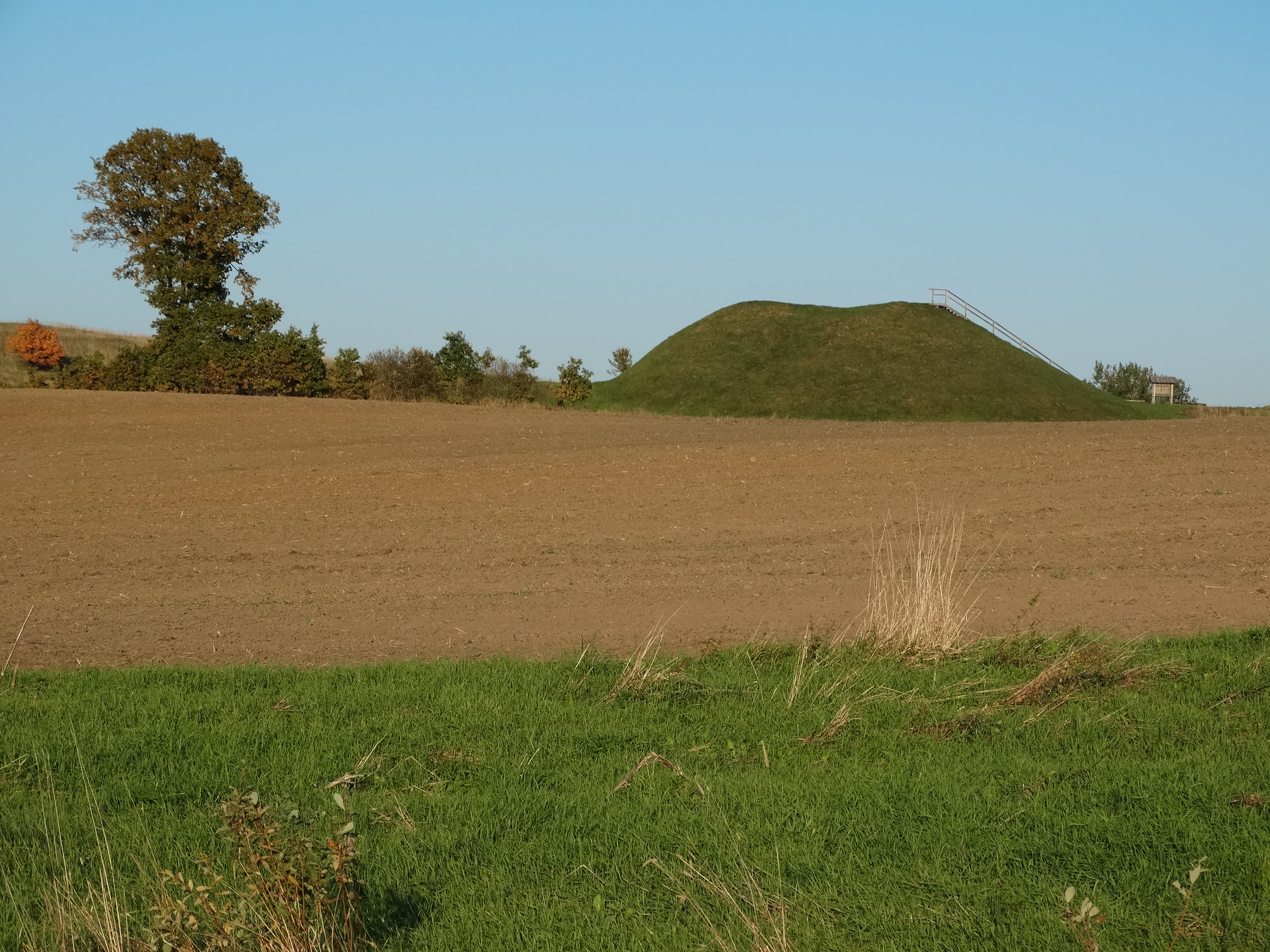 Hillfort Rokiškių, Kaišiadorys district, Lithuania